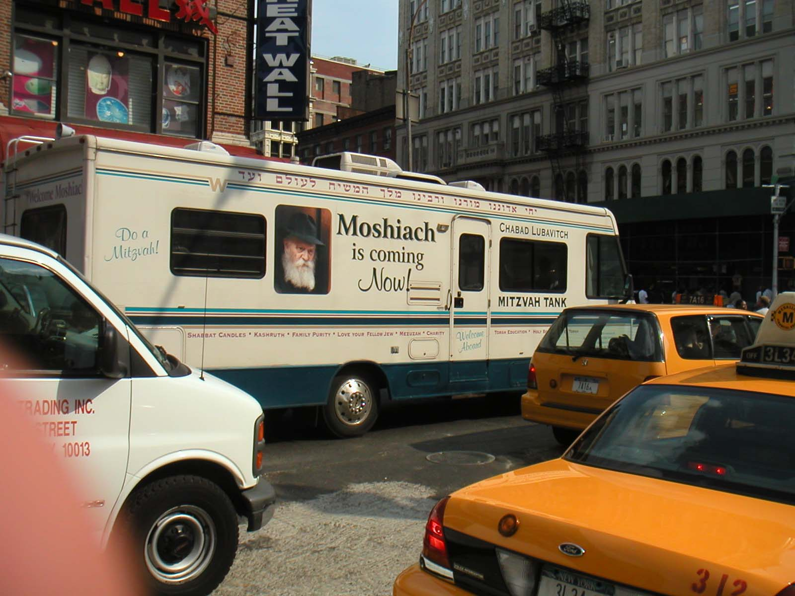 Mitzvah Tank